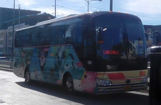 Davao Metro Shuttle Go-Mindanao Tours Yutong ZK6122HD5 bus in Davao City.